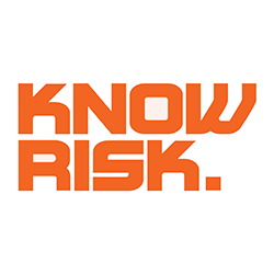 Know Risk logo